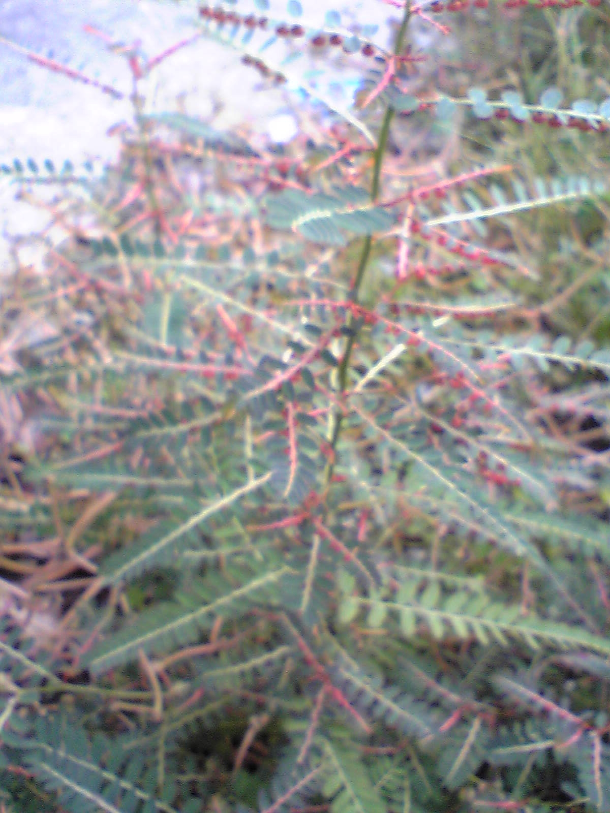 Phyllanthus urinaria